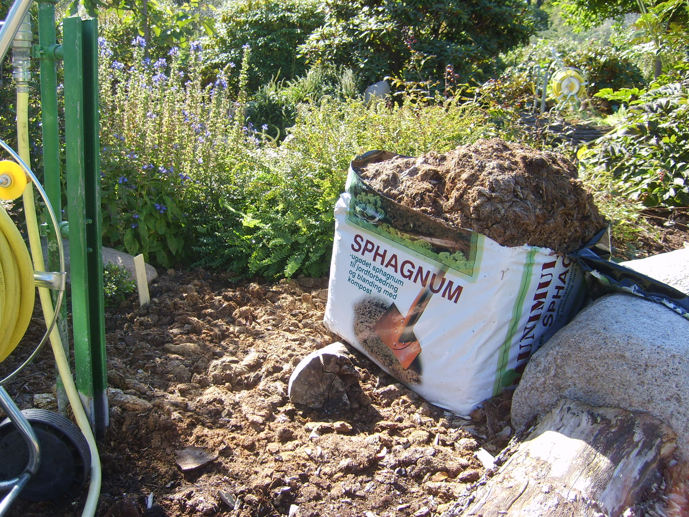 Peat bed, Copenhagen Botanical Garden